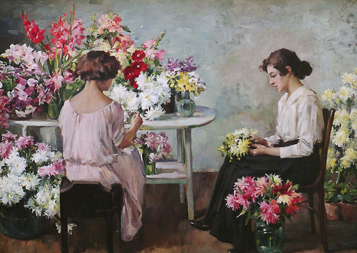 Flower vendors